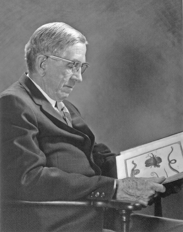 S. Stillman (Samuel Stillman) Berry, 1887-1984, is seated holding a rare book from his collection. Selected publications from his library are housed in the National Museum of Natural History This photograph was included in the transcript of the S. Stillman Berry Oral History Interview by Donald R. Shasky and Jack W. Brookshire, February 4, 1982, in Smithsonian Institution Archives